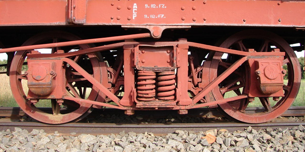 SAR Diamond Frame bogie, with coil springs and spoked wheels